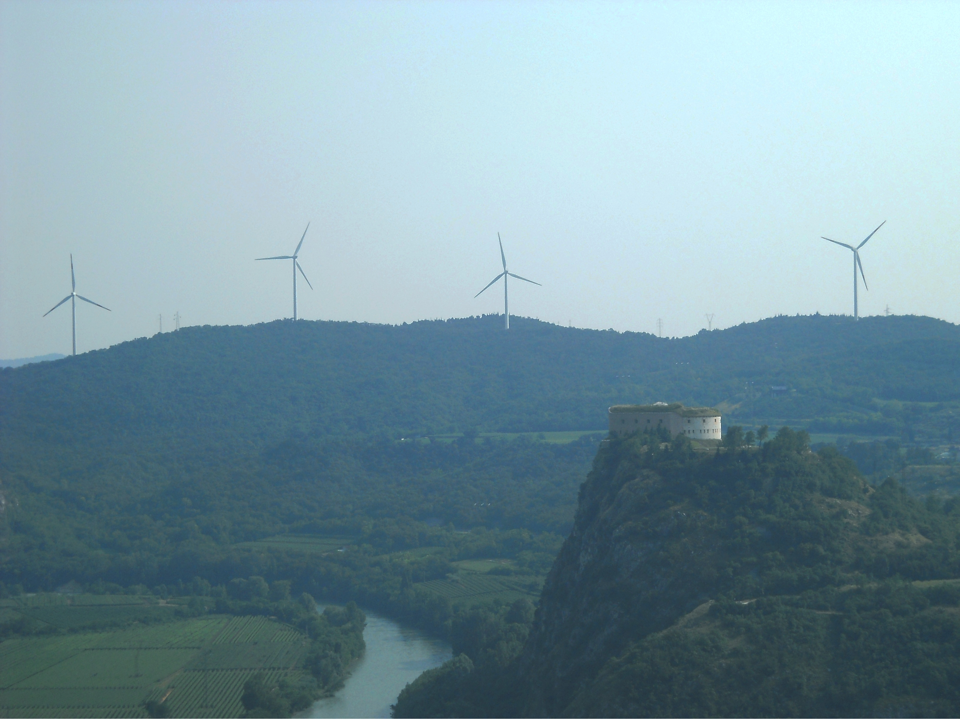 Wind farm at Rivoli Veronese (Italy)